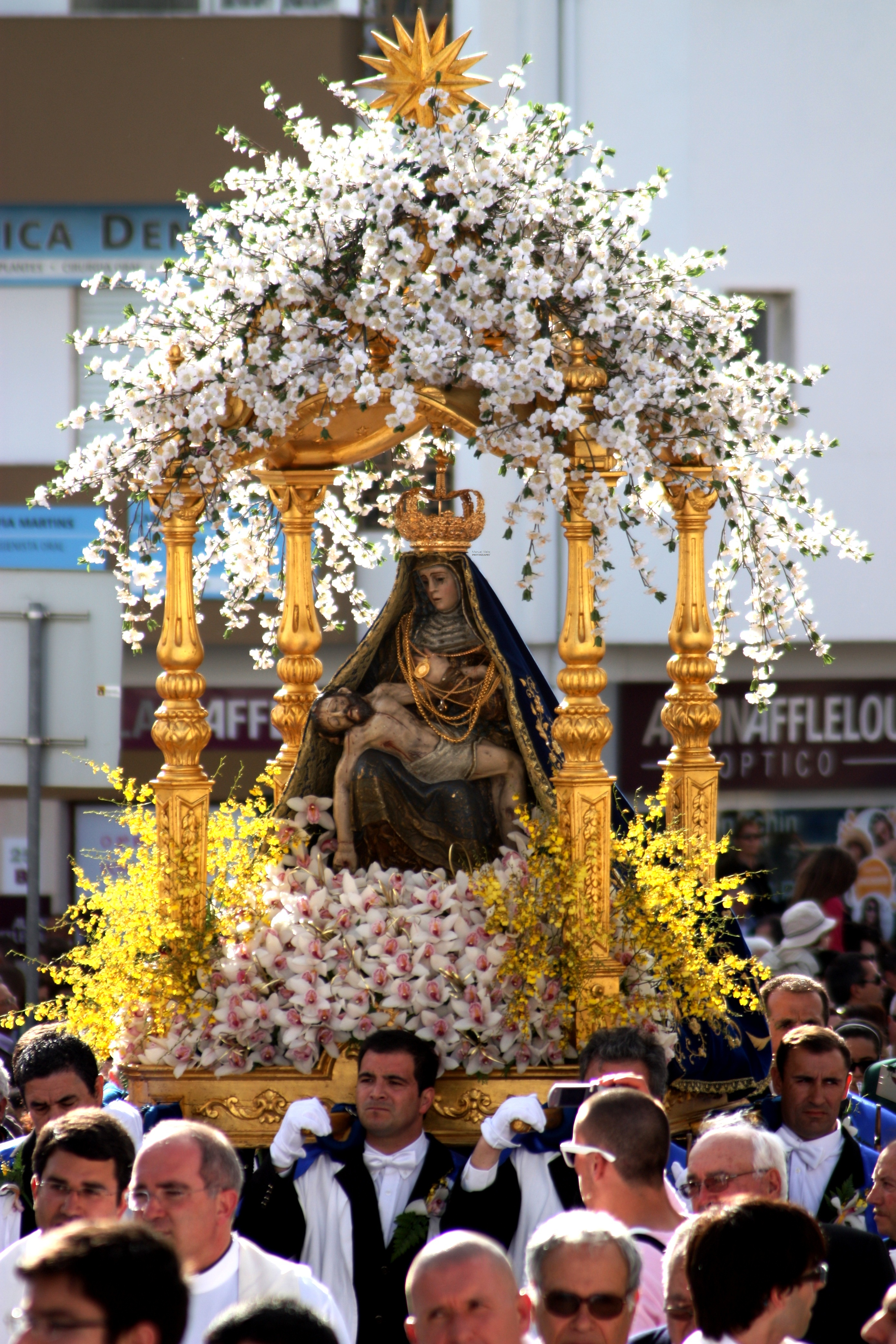 Picture taken on the procession of "Nossa Senhora" in Loulé (Algarve, Portugal).